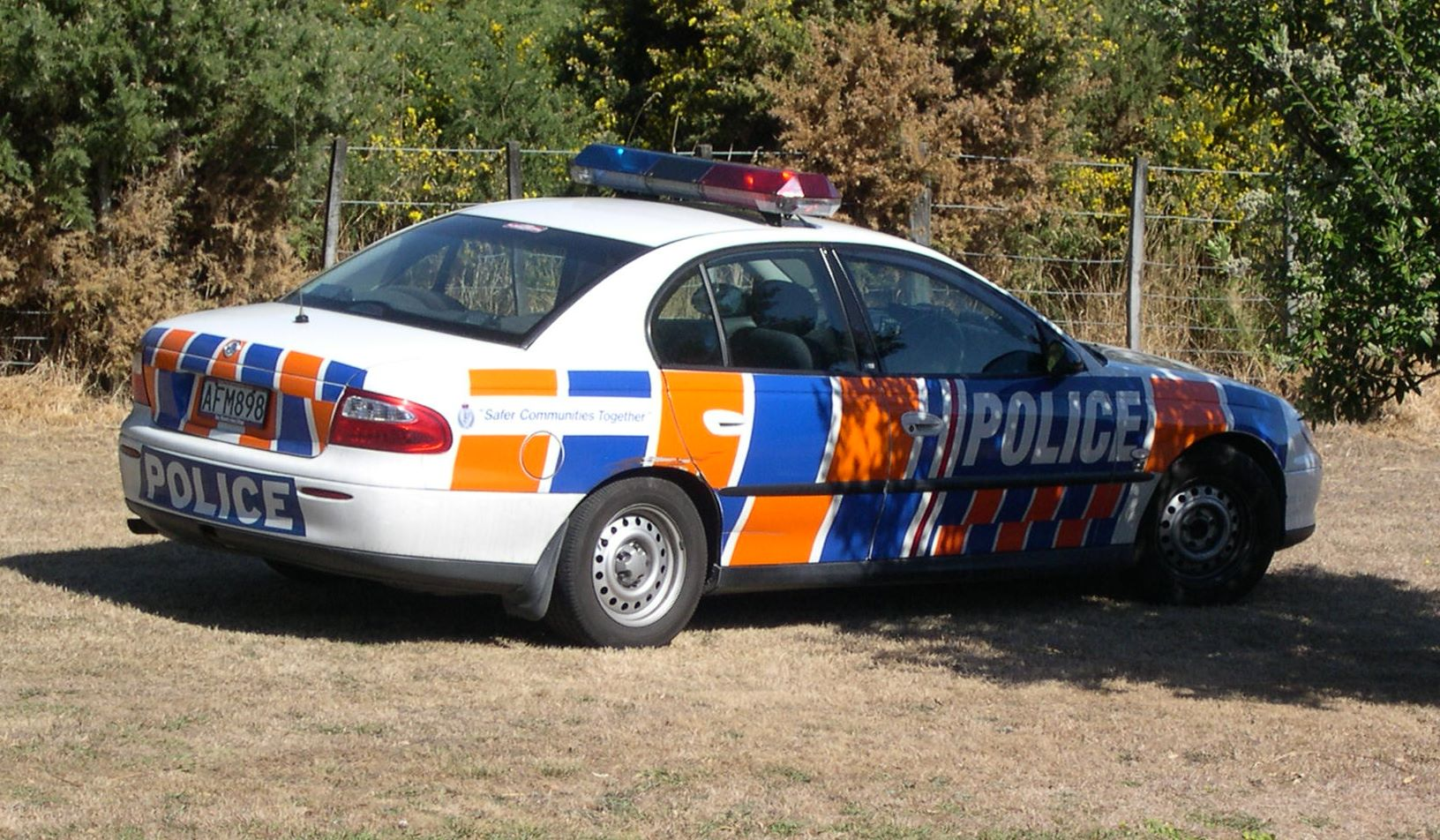 More Photos at